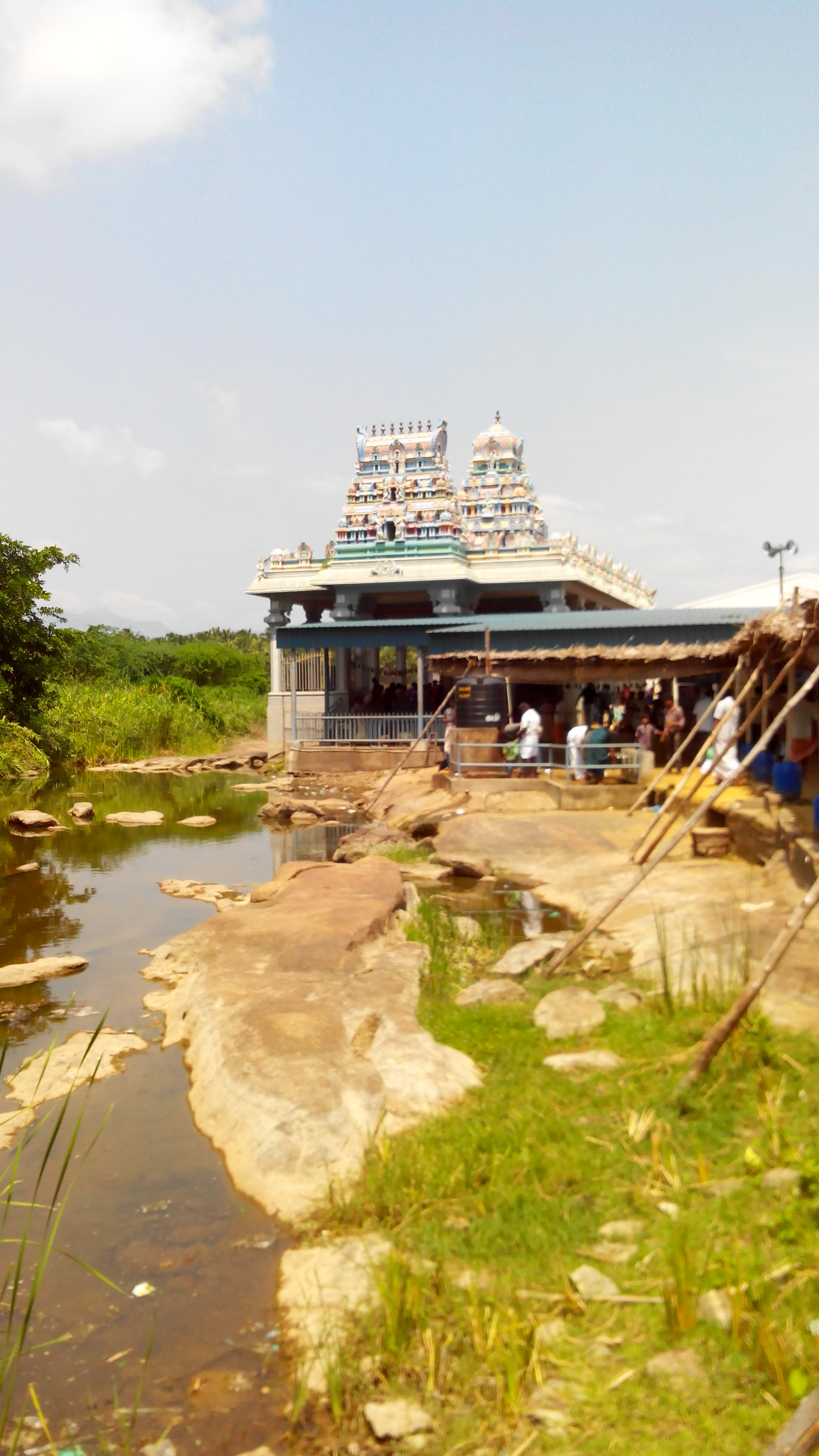 Palatrankarai Anjaneyar Temple